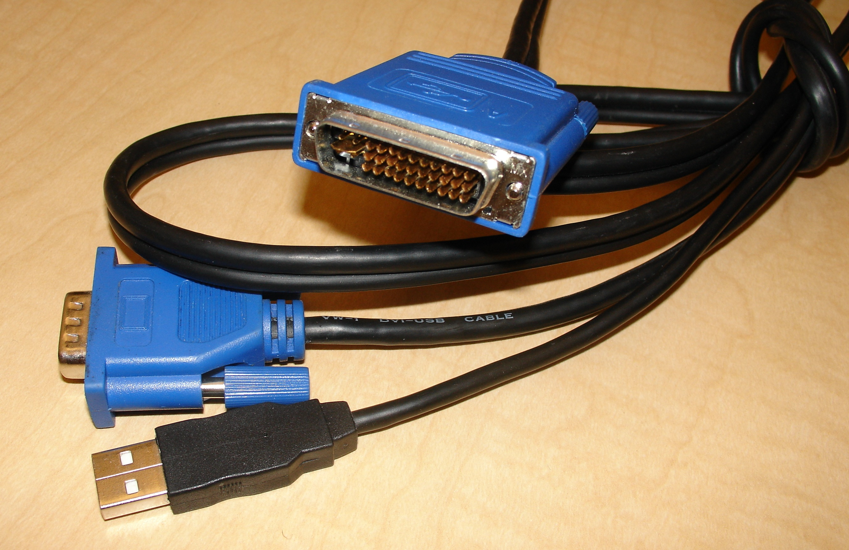 Close up of a M1-A VESA Enhanced Video Connector. Note DB-25 shape of shell.